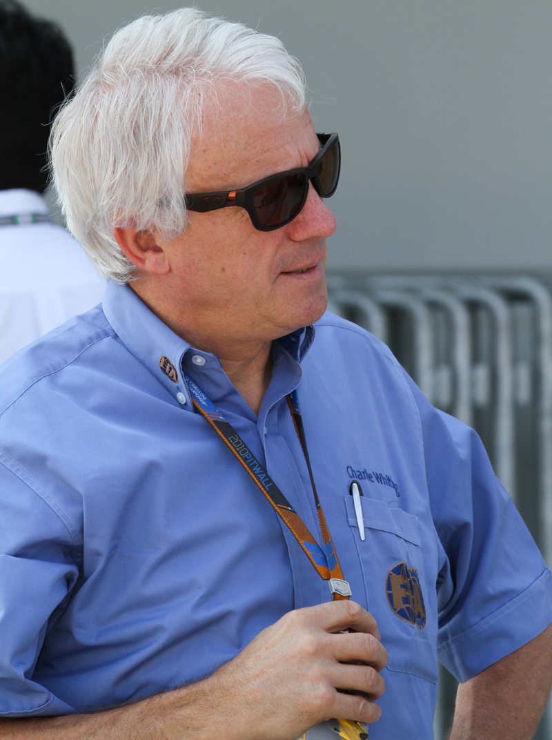 Formula One 2010 Rd.16 Japanese GP: Charlie Whiting (FIA) on Thursday.